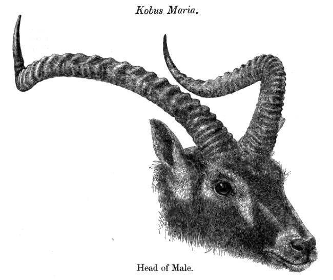 Head of Nile Lechwe then called Kobus maria by J E Gray after his wife